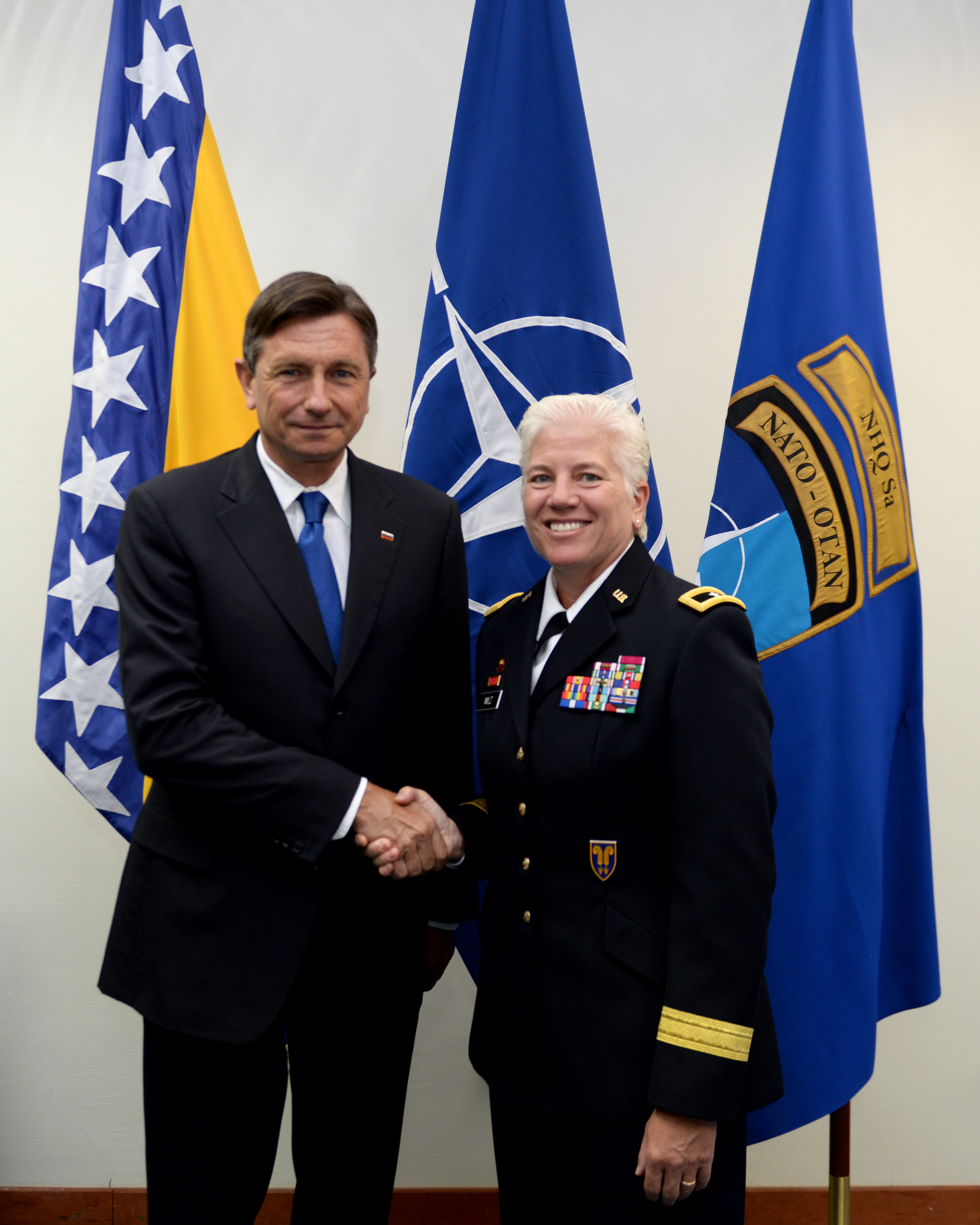 Brig. Gen. Giselle Wilz, NATO Headquarters Sarajevo commander, welcomes H.E. Borut Pahor, the President of the Republic of Slovenia, at Camp Butmir, Bosnia and Herzegovinia, May 28, 2016. The general and President Pahor discussed NATO-BiH relations, the upcoming Warsaw Summit, and the Slovenian valuable contribution to NATO HQ Sarajevo mission in BiH. The president is in BiH for the Brdo-Brijuni Process meeting in Sarajevo.